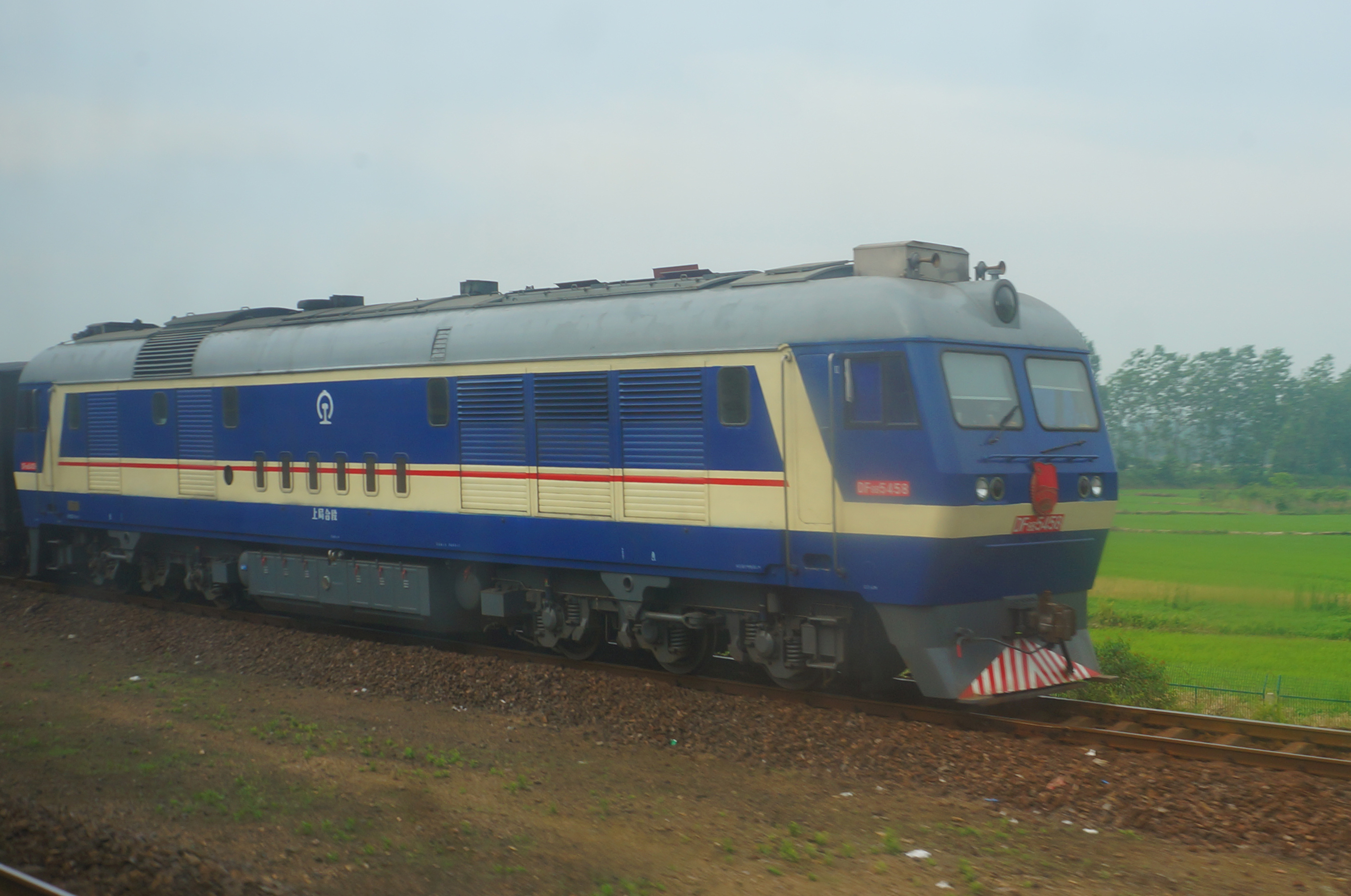 201705 DF8B-5458 at Lujiang Station. First time to see a real DF8B loco (apart from 741)